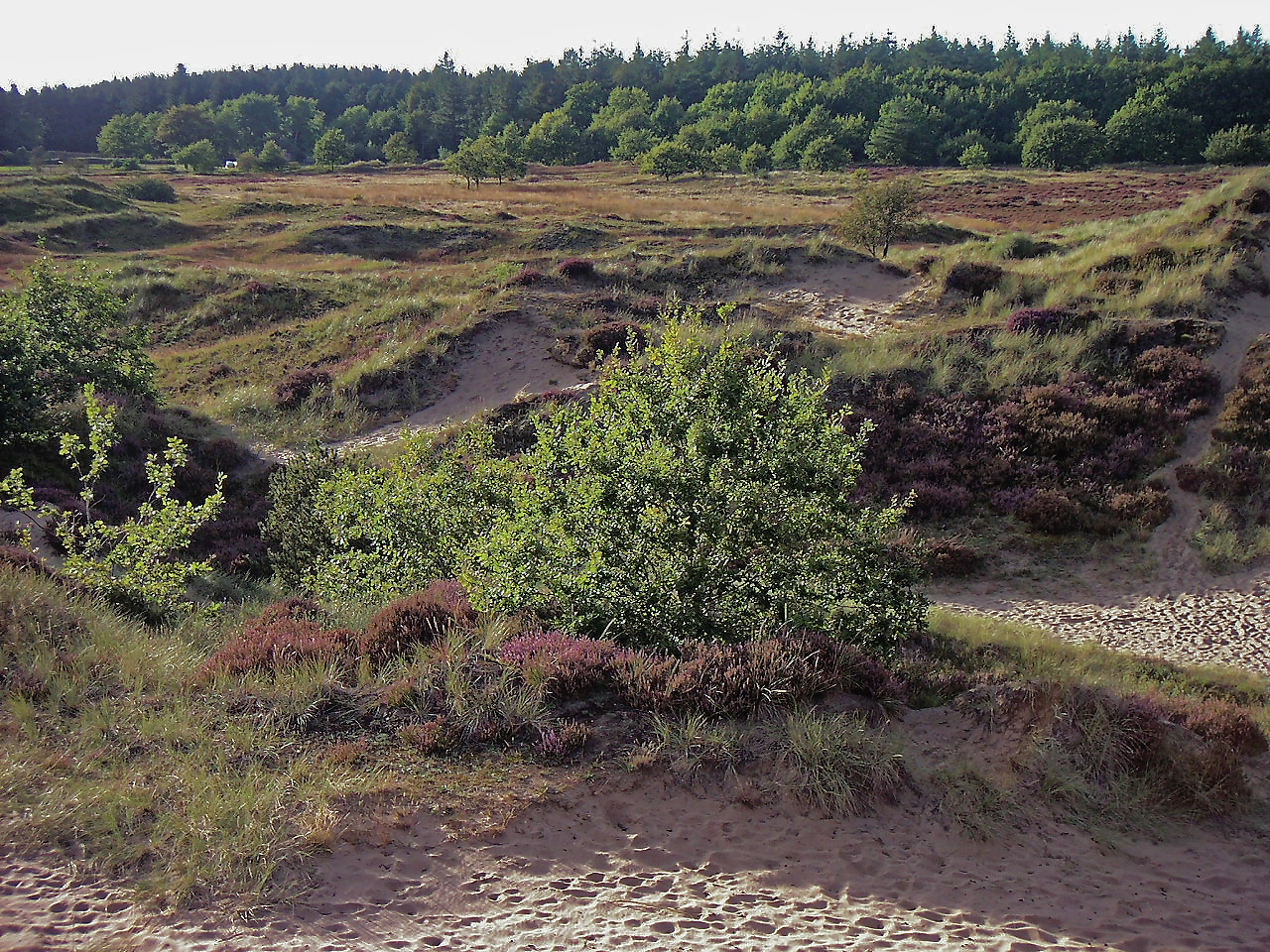 Nature Reserve Süderlügumer Binnendünen in north-frisia in germany